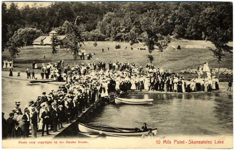 Smokehouse 1907 postcard showing Ten Mile Point, Lake Skaneateles, New York.